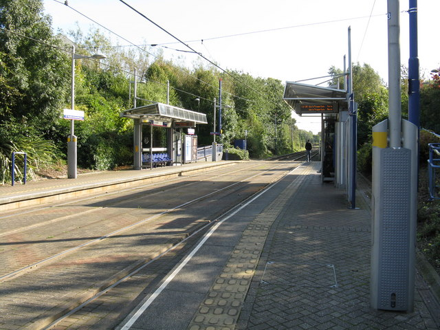 Trinity Way tram stop One of the standard designs for the Midland Metro tram system.